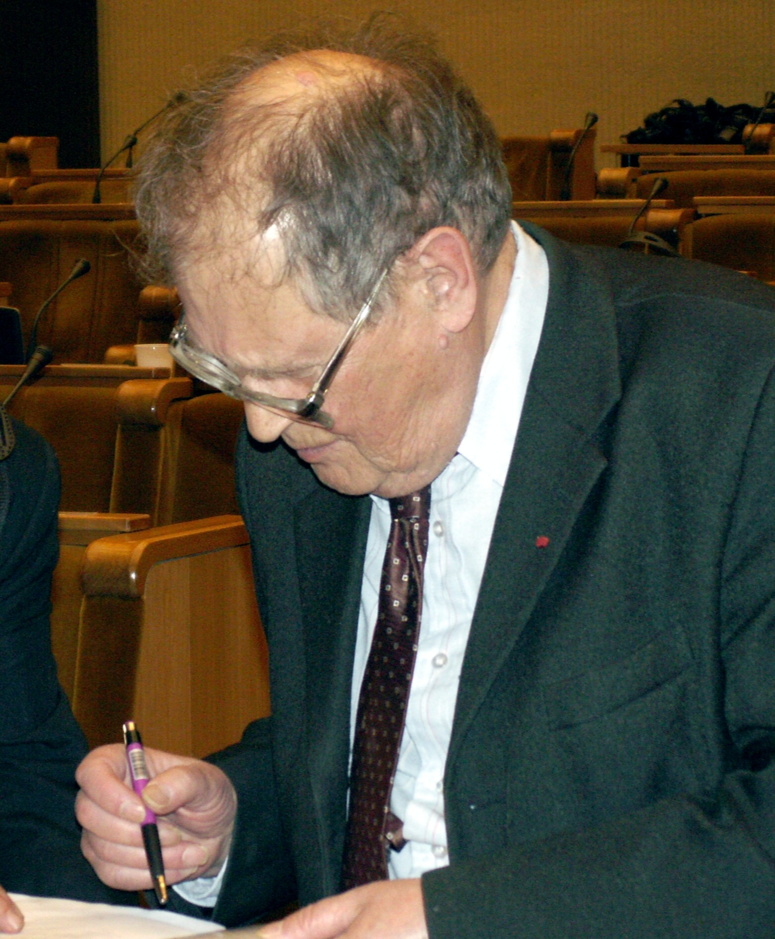 Russian human rights activist and politician and a former Soviet dissident and political prisoner Sergei Kovalev